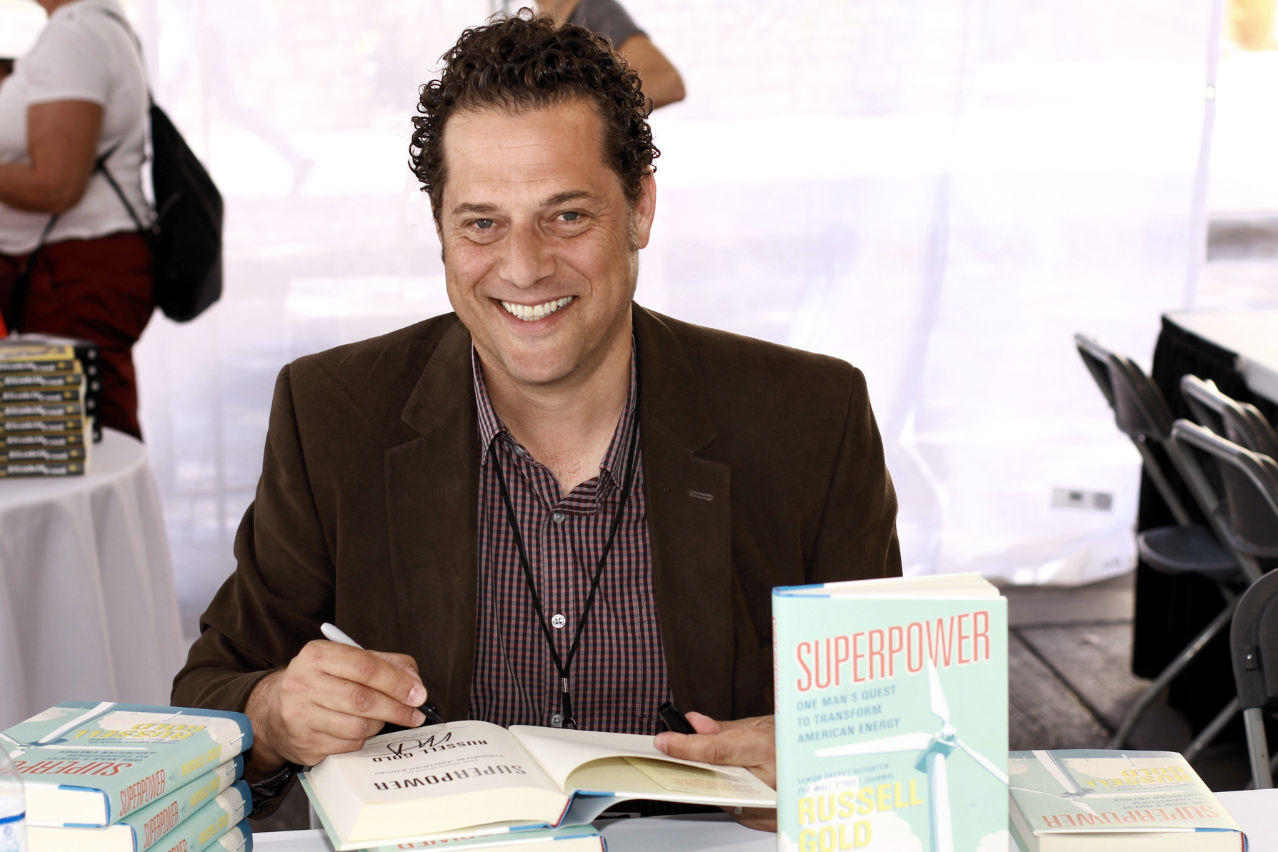 Author Russell Gold at the 2019 Texas Book Festival in Austin, Texas, United States.